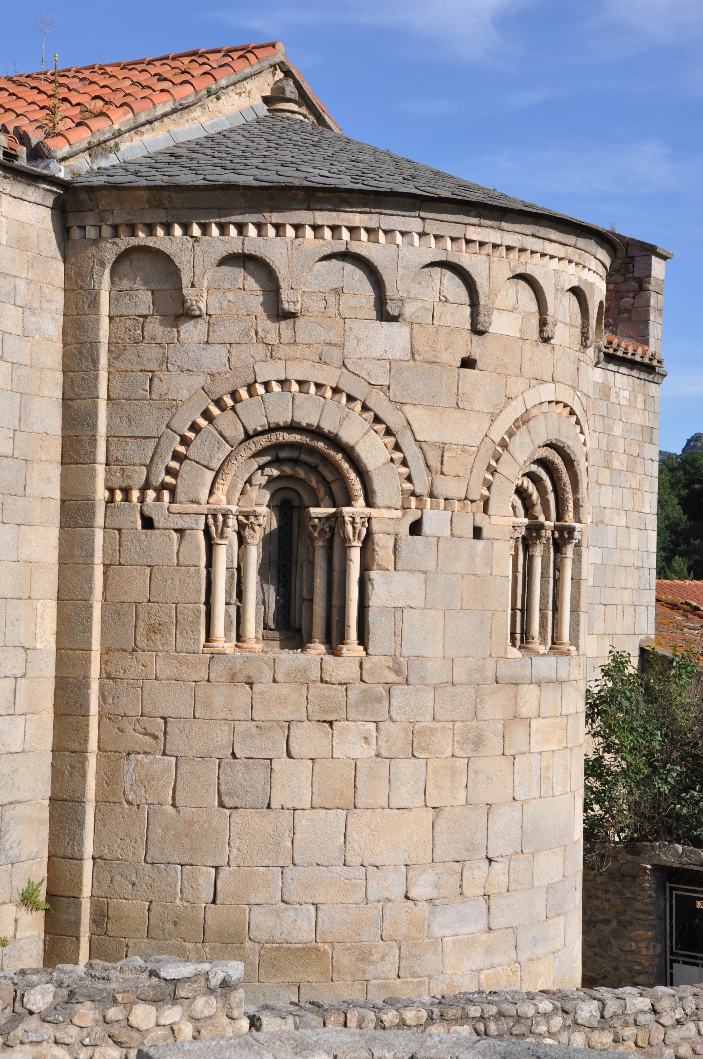 Cornellà de Conflent. Church of St. Mary, formerly a monastery of regular canons. Apse. 12th C.